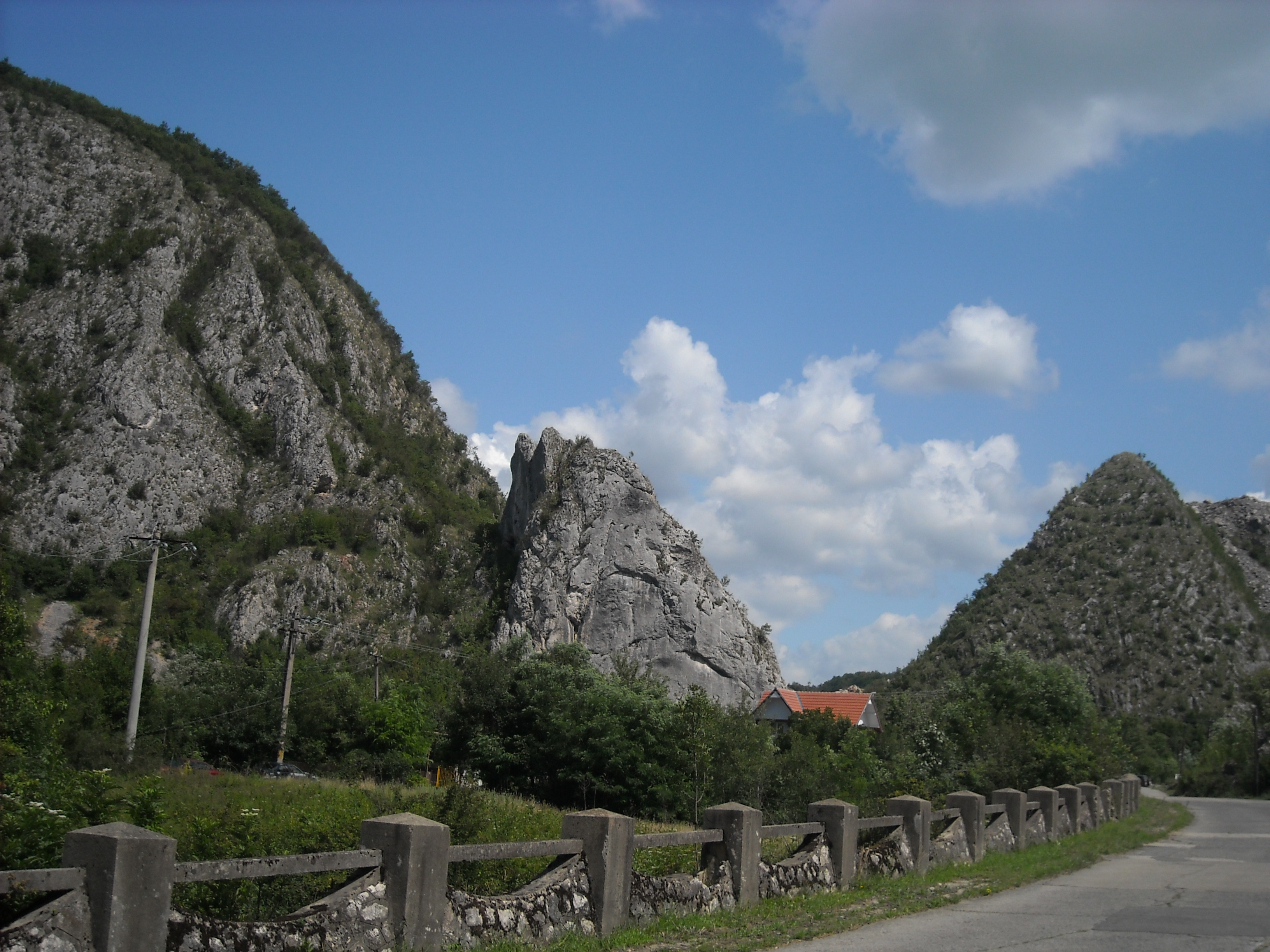 Între Piatră